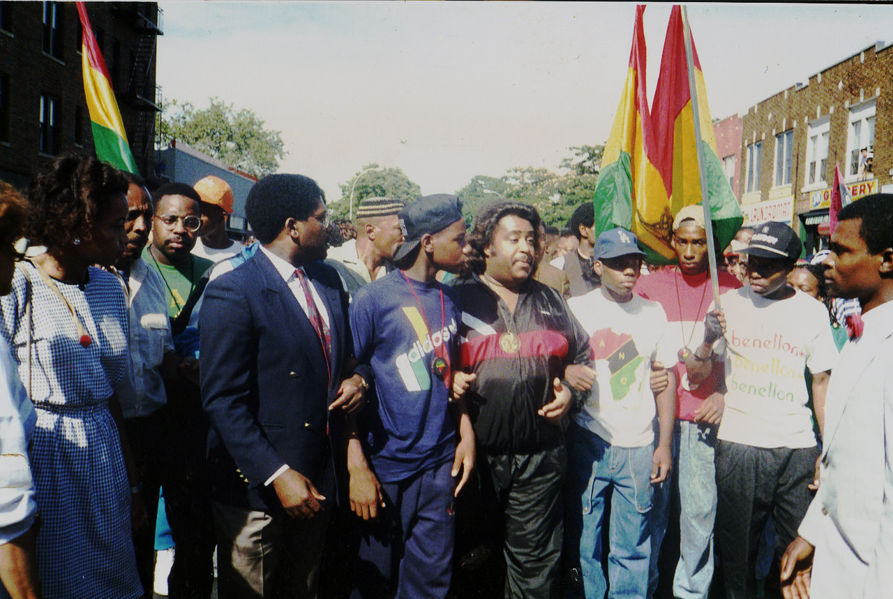 Al Sharpton leading the first of dozens of protest marches after 40 white teenagers murdered Yusuf Hawkins, a 16 year old black youth in the (then) white neighborhood of Bensonhurst in Brooklyn. Al Sharpton bravely led marchers through the Bensonhurst every week for over a year, despite shouts and catcalls and threats to his life. He was stabbed in 1991 during another march in Bensonhurst. I happened to be home from college during the murder and the first protest march. I stumbled upon Rev. Sharpton and his group assembling in my grammar school's playground and then followed them through the neighborhood. I saw one white guy charge at Reverend Sharpton, only to be quickly knocked to the ground by the police. I saw another guy come out of his house weilding a kitchen knife who the cops also cuffed and led away. Spike Lee's film Jungle Fever is dedicated in memory of Yusuf Hawkins, and his photograph appears at the beginning of the film.